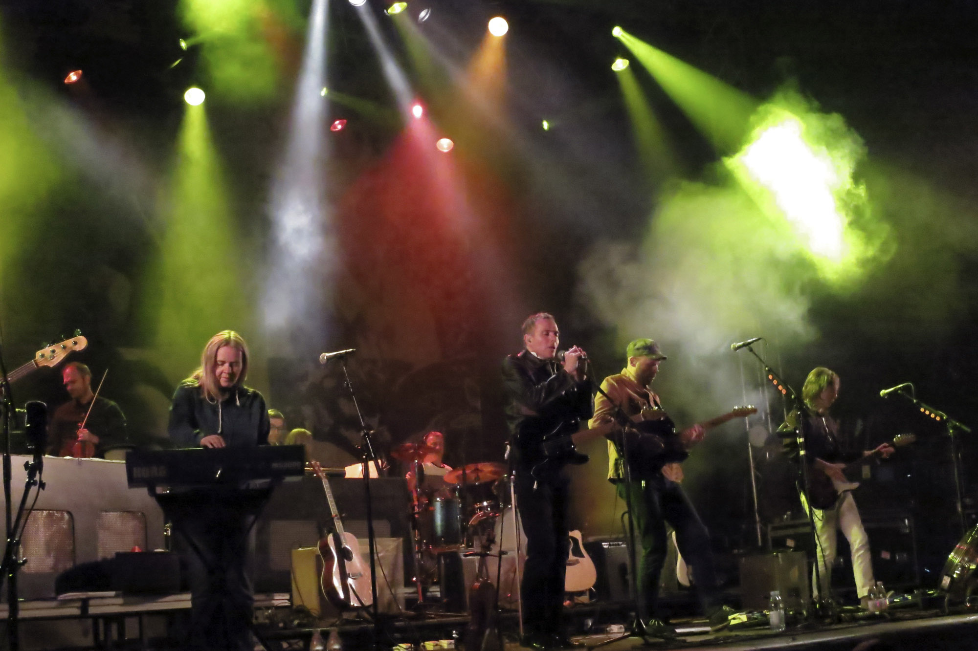 Belle & Sebastian at Bråvalla Festival (Bråvallafestivalen) in Norrköping, Sweden, June 2014